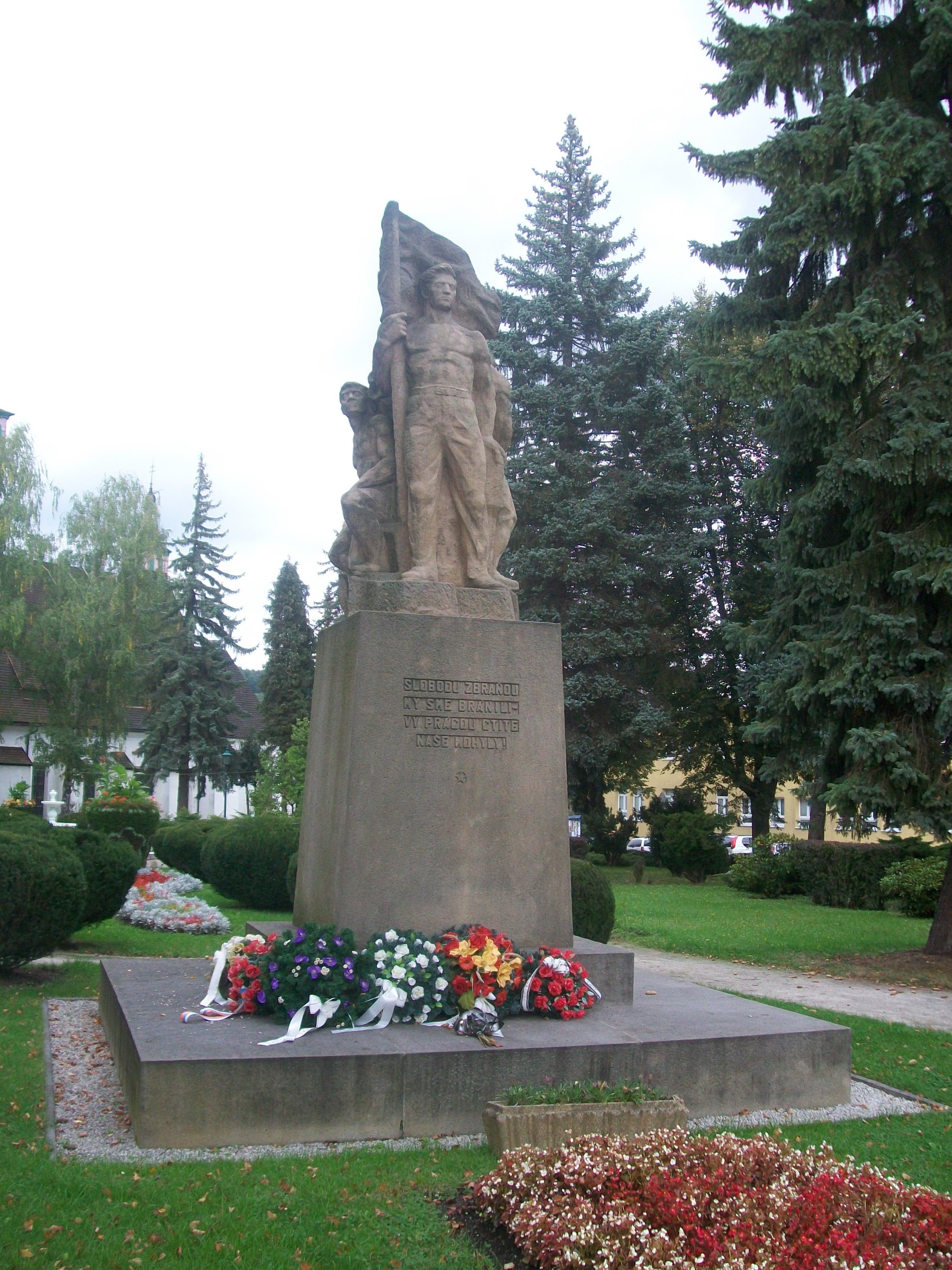 Monument to the fallen miners in the Slovak National Uprising, sculpture in the style of socialist realism is of sandstone, the author is sculptor Rudolf Uher, was unveiled in 1959Slovenčina: Pamätník padlých baníkov v SNP, Súsošie v štýle socialistického realizmu je z pieskovca, autorom je akademický sochár Rudolf Uher, pamätník bol odhalený bol v roku 1959 Object location48° 43′ 41.16″ N, 18° 45′ 36.9″ E